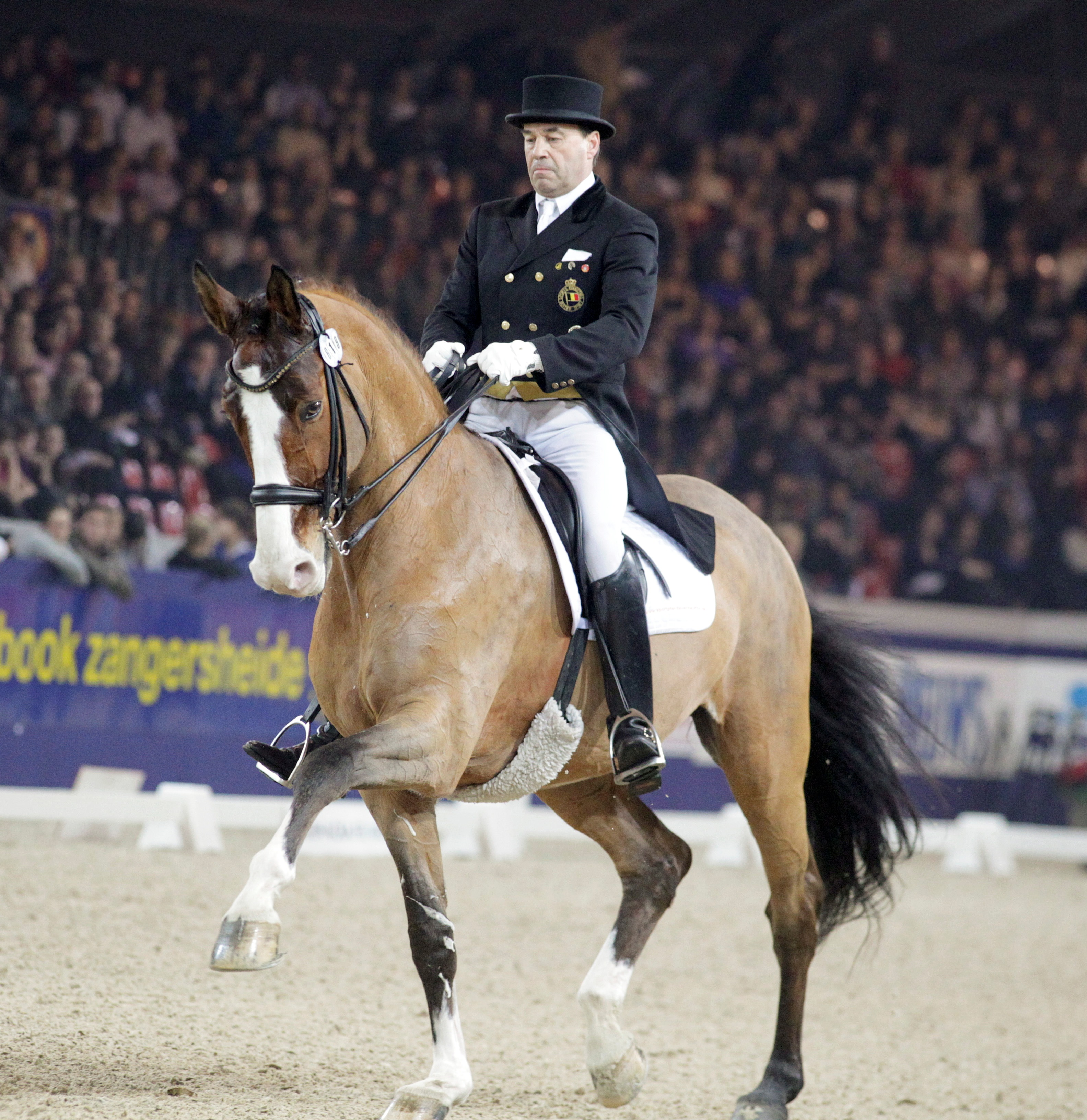 Zagers Johan (BEL) - Question de Liberte